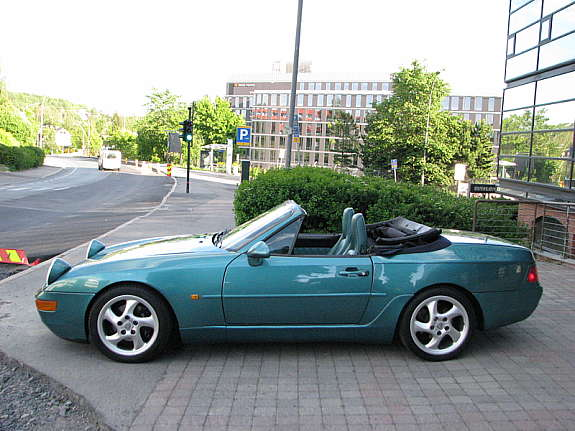 Porsche 968 convertible